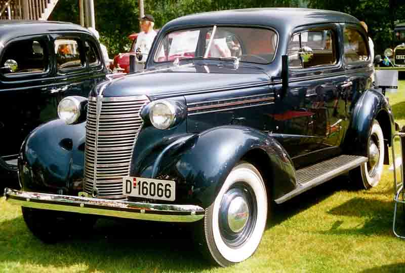 1938 Chevrolet Master Touring Coach